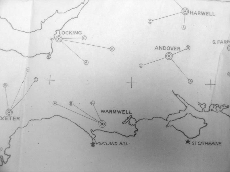 Pundit Lights, airfield identification beacons of WWII